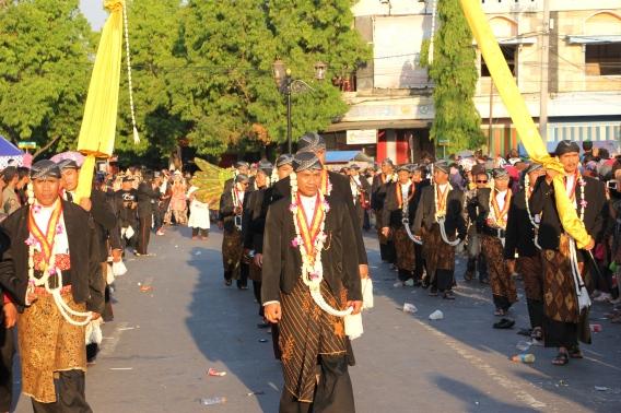 Kirab Pusaka at Ponorogo, East Java, Indonesia.